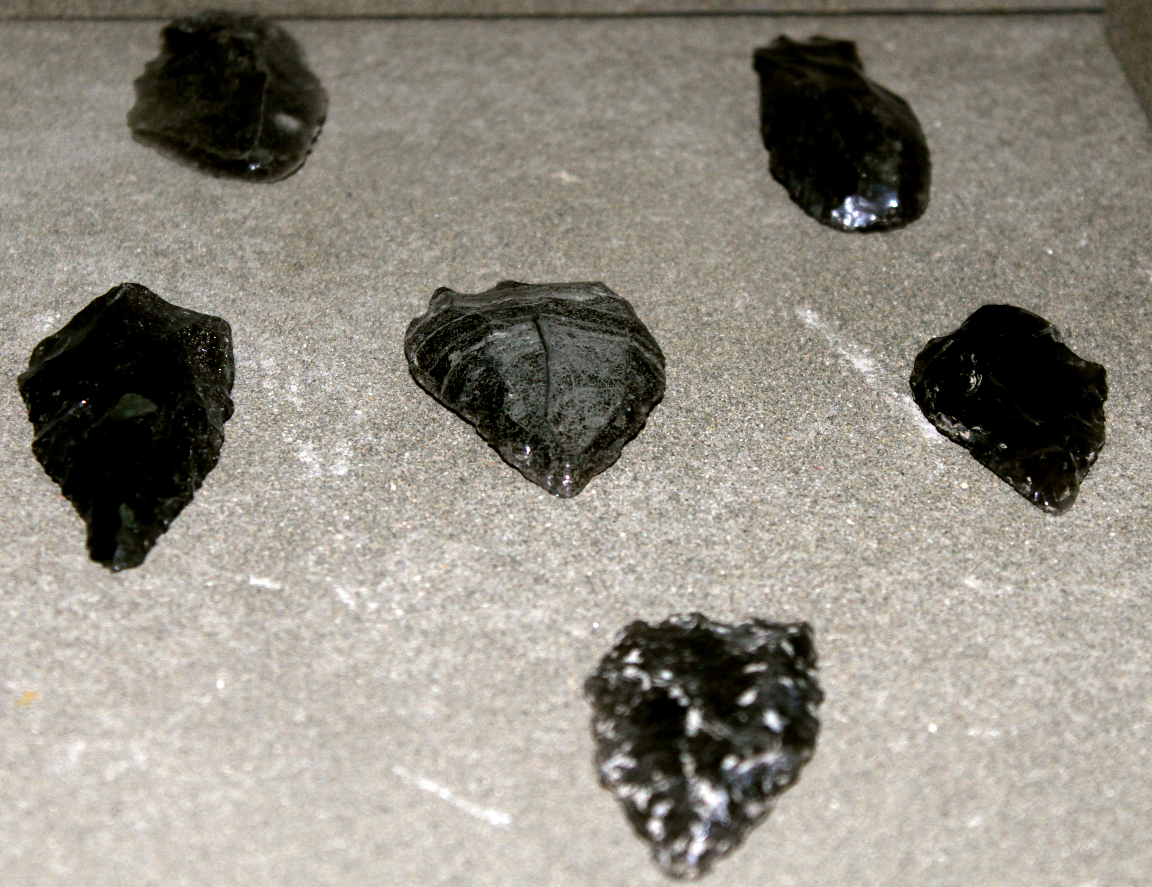 Çaxmaqdaşı və dəvəgözündən əmək alətləri, Tağlar mağarası (Xocavənd), Zar mağarası (Xocavənd)